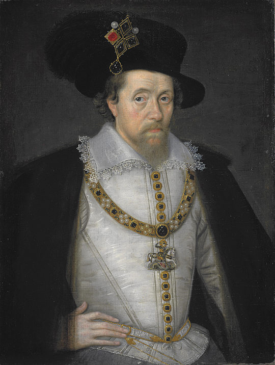 James VI of Scotland, I of England and Ireland